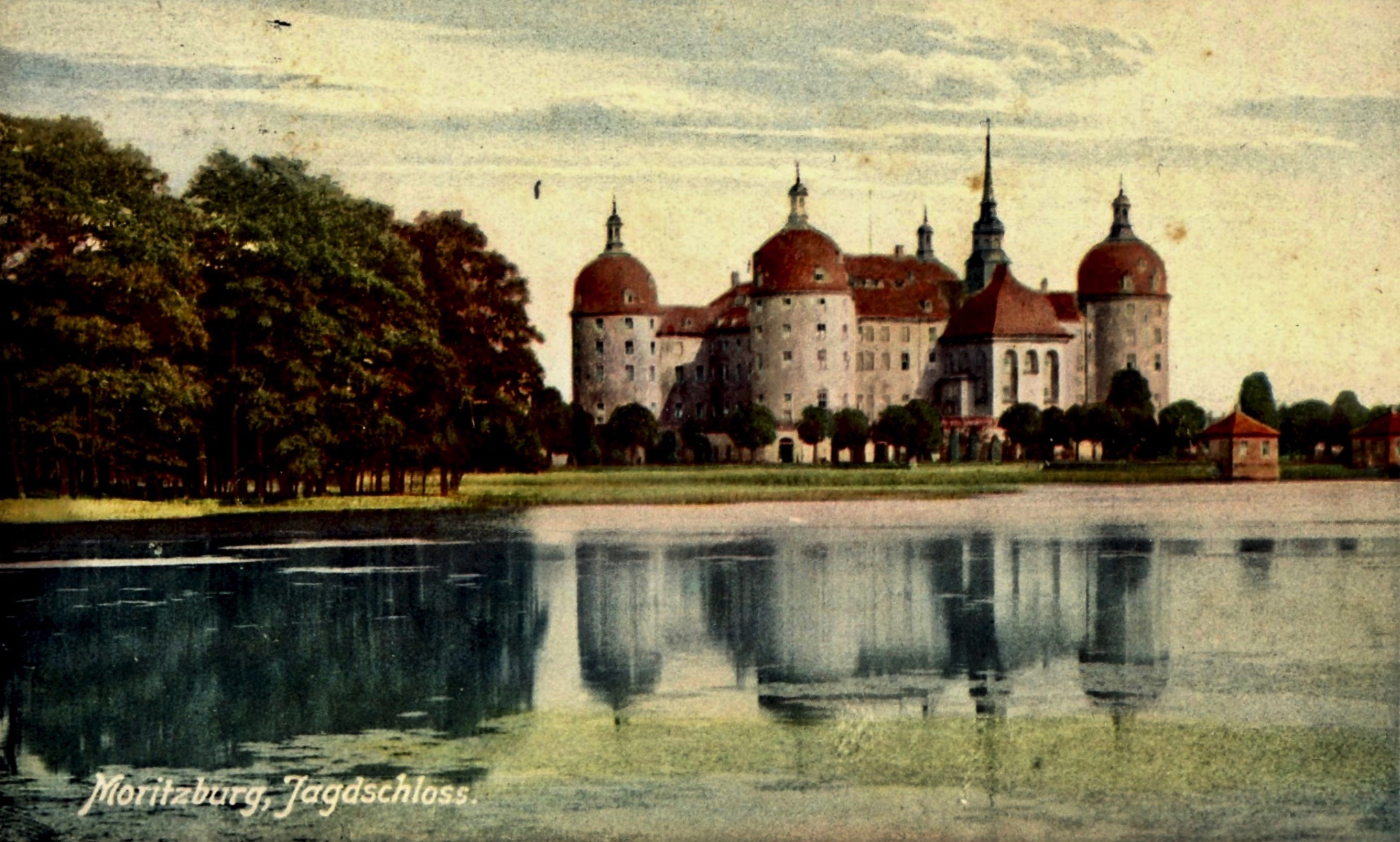 Contemporary postcard cover of Moritzburg Castle near Dresden, Saxonia, Germany